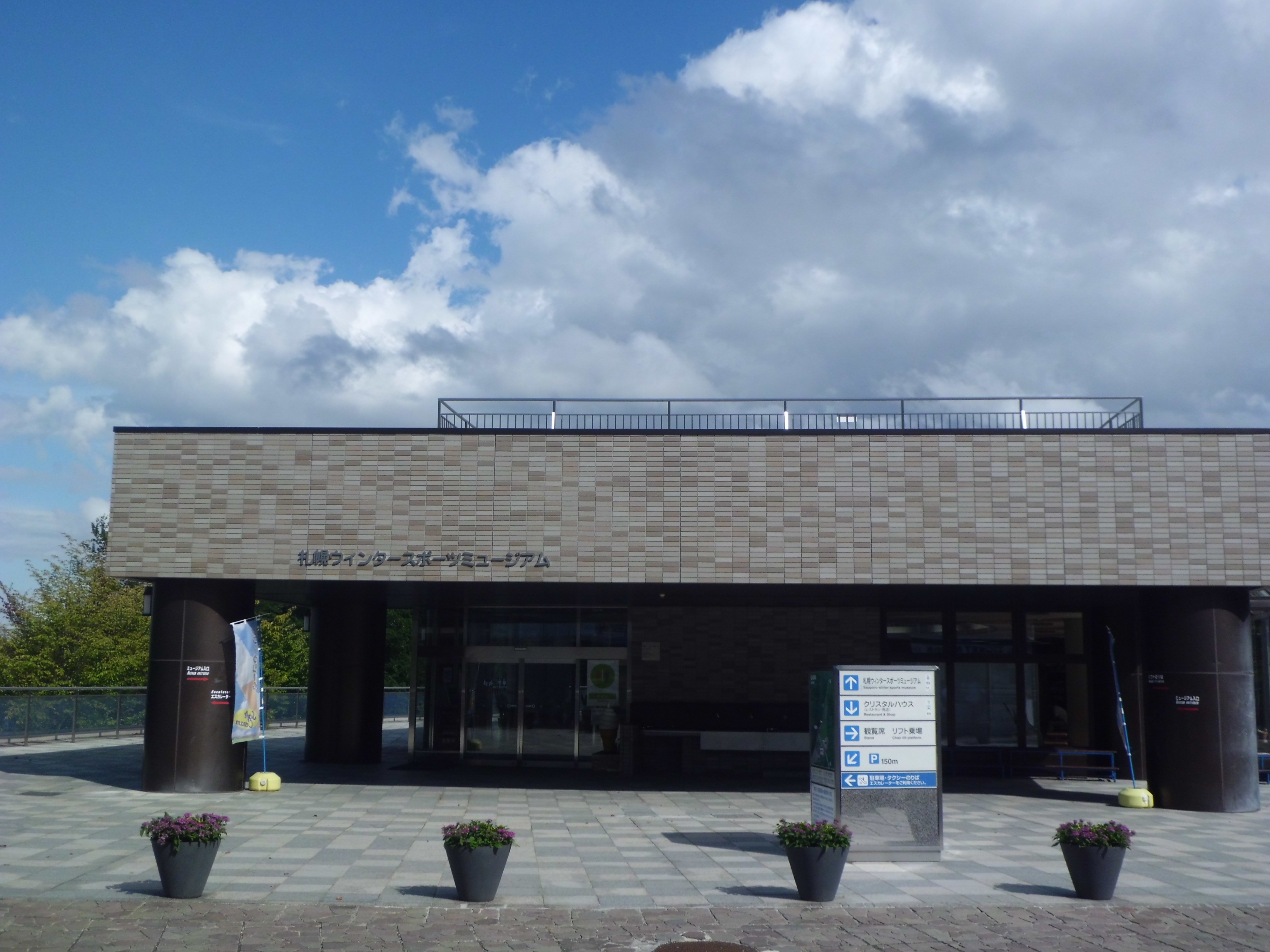 Sapporo Winter Sports Museum